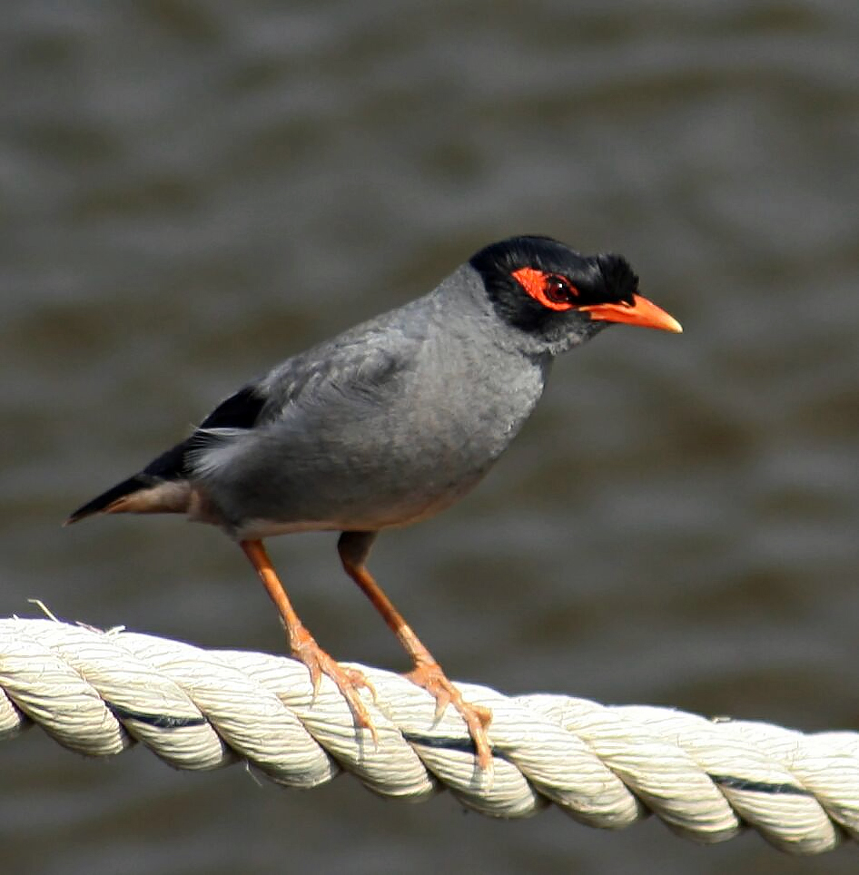 Bank Myna on the banks of the Ganga at Bithur, India. This bird was sitting on the ropes holding up the pontoon bridge. The Bank Myna is very similar to the Common Myna except for the gray colour, and the eye patch is a more reddish yellow.